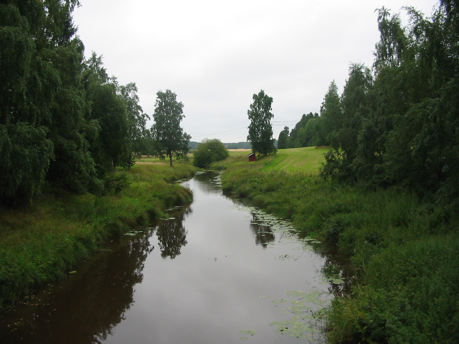 Ruskonjoki river near Rusko church in Rusko, Finland Proper